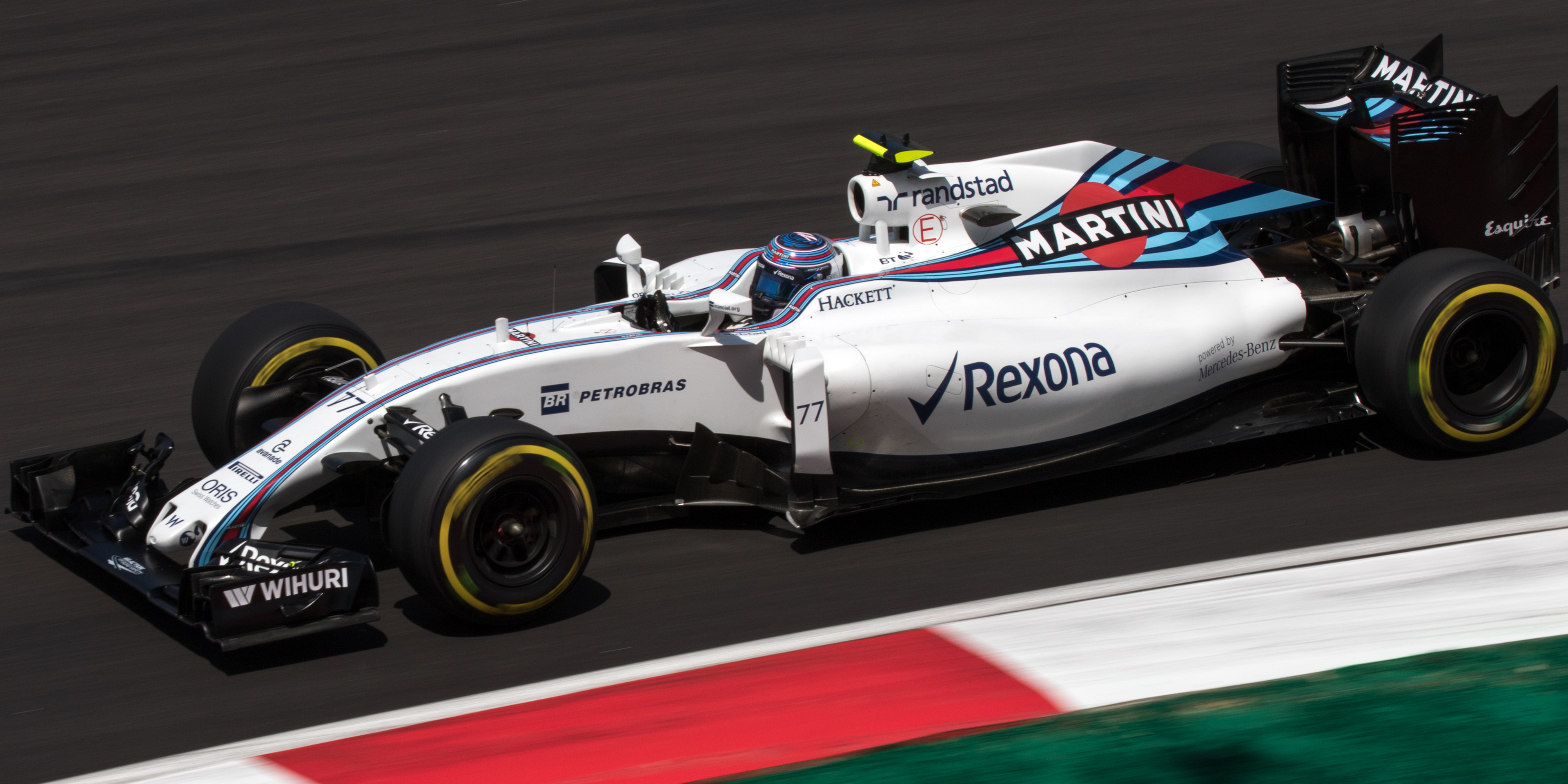 Formula One 2016 Rd.16 Malaysian GP: Felipe Massa (Williams)